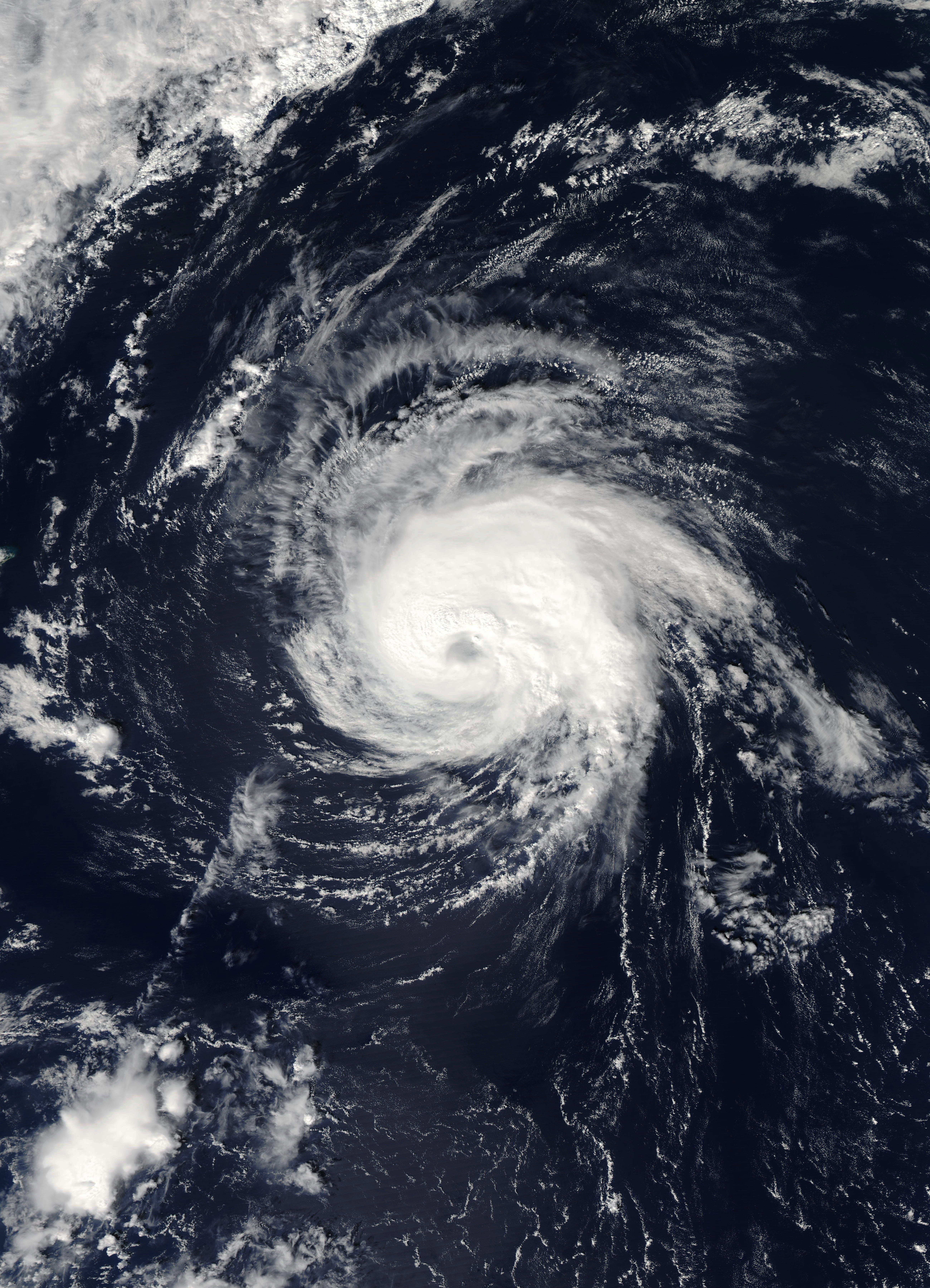 Hurricane Isaac near peak intensity east of Bermuda on September 30, 2006